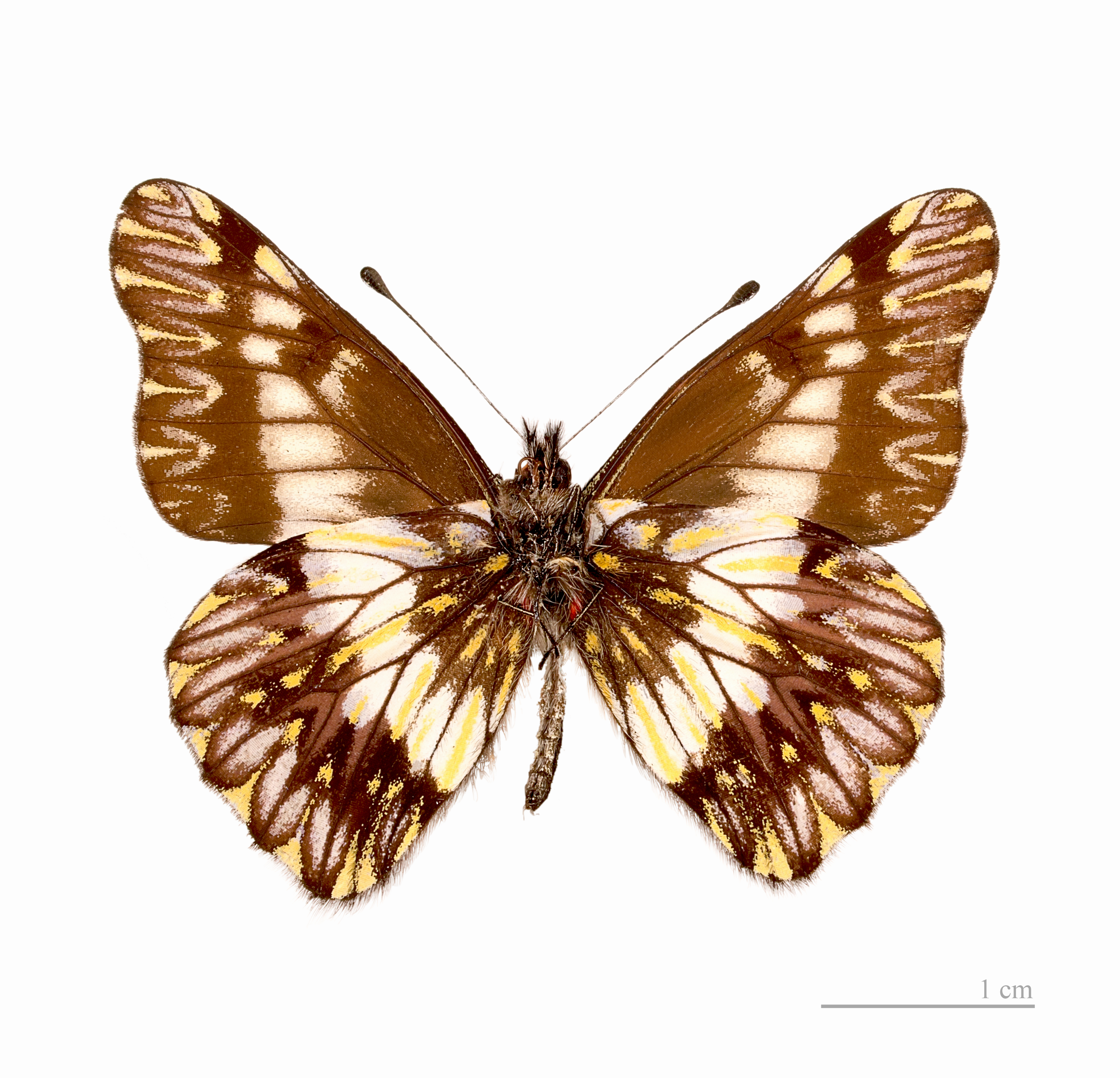 ♂ - △ Ventral side Locality : Amazonas Region, North of Peru.